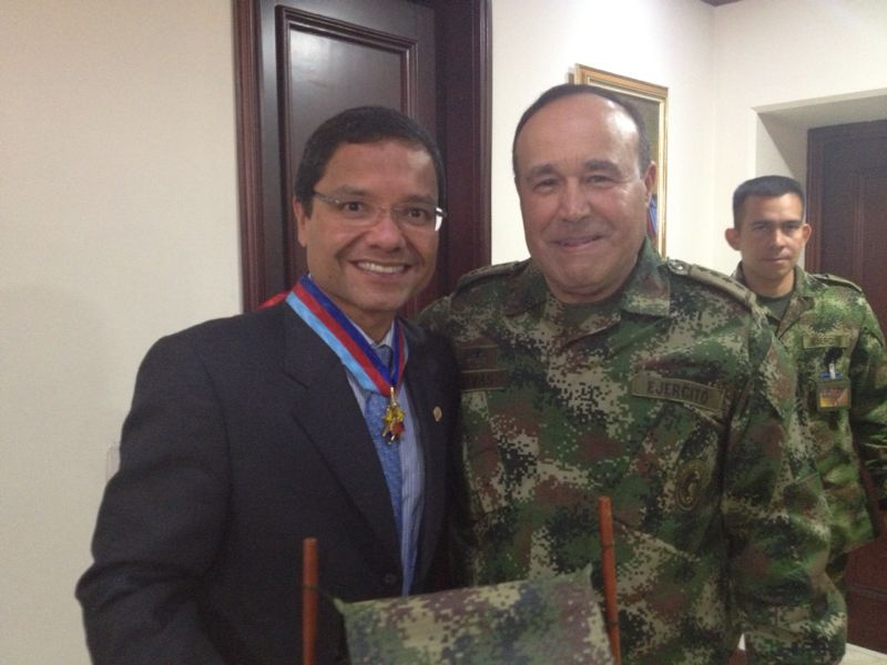 Torrijos receives Colombian Army medal for distinguished services.